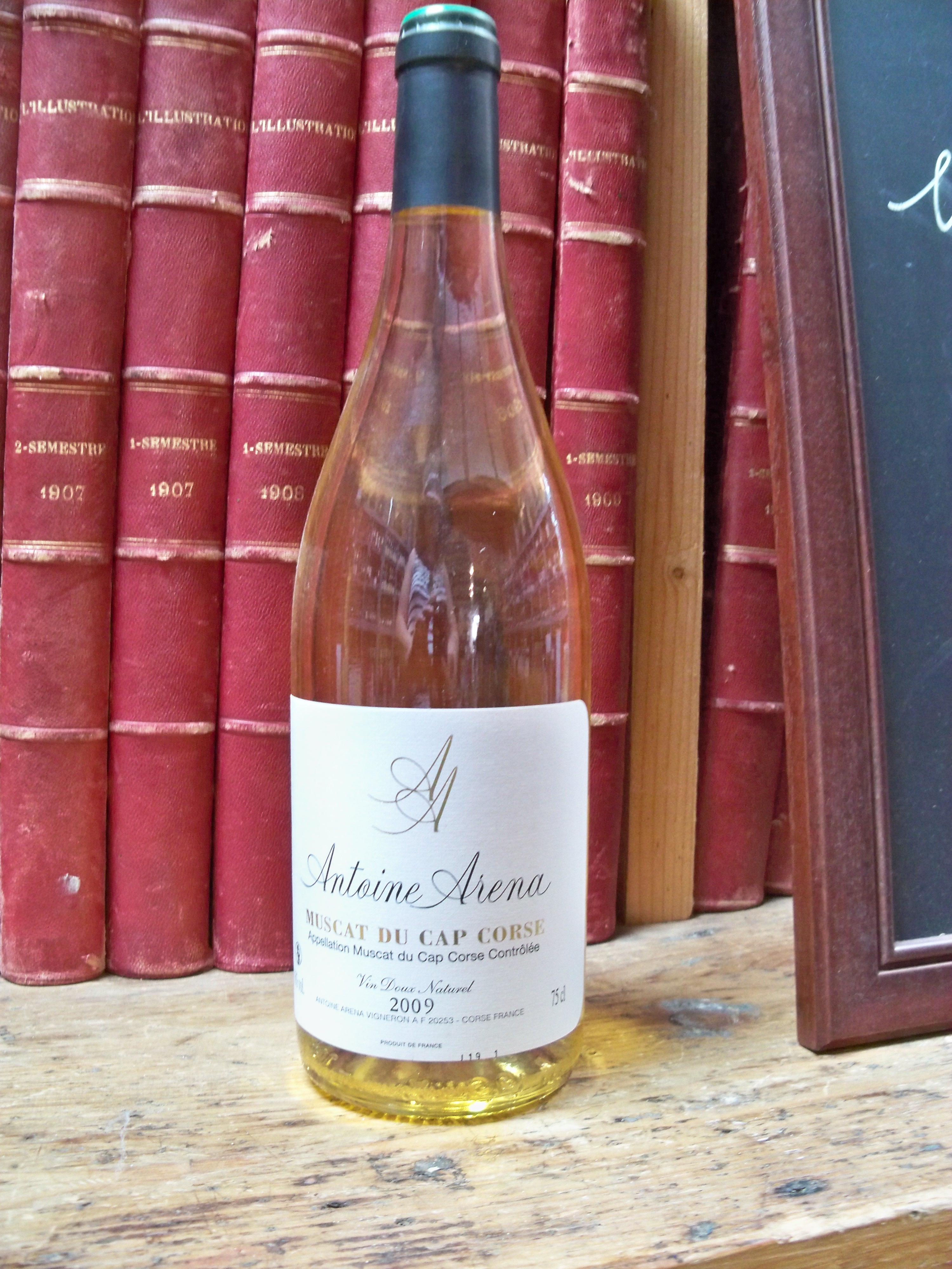 bouteille de Muscat du Cap Corse